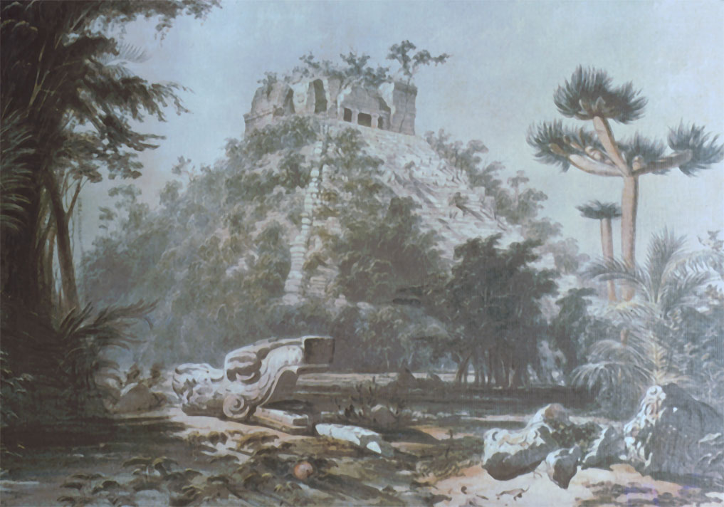 Chichen Itza, Yucatan, Mexico: Castillo.